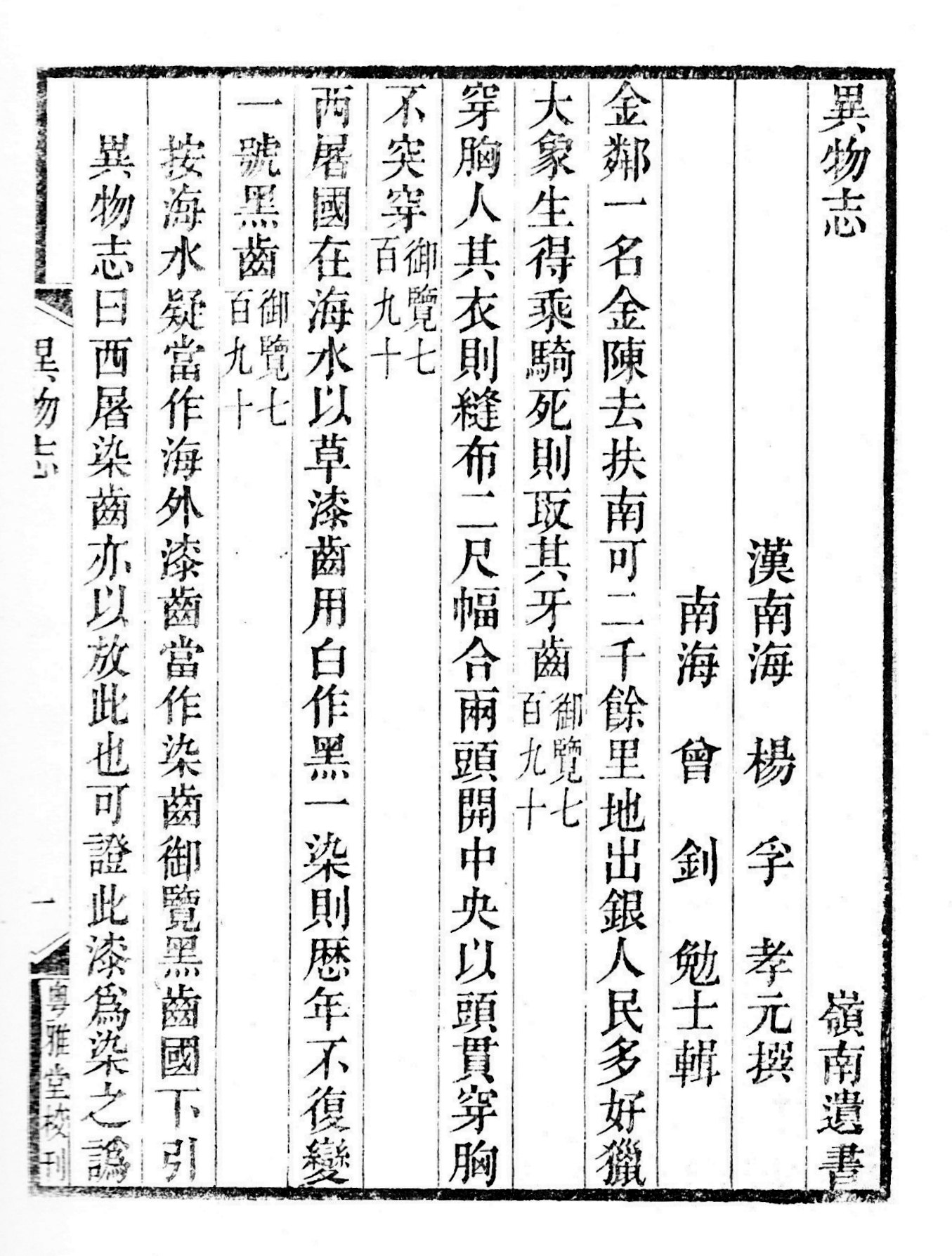 Record of Strange Objects